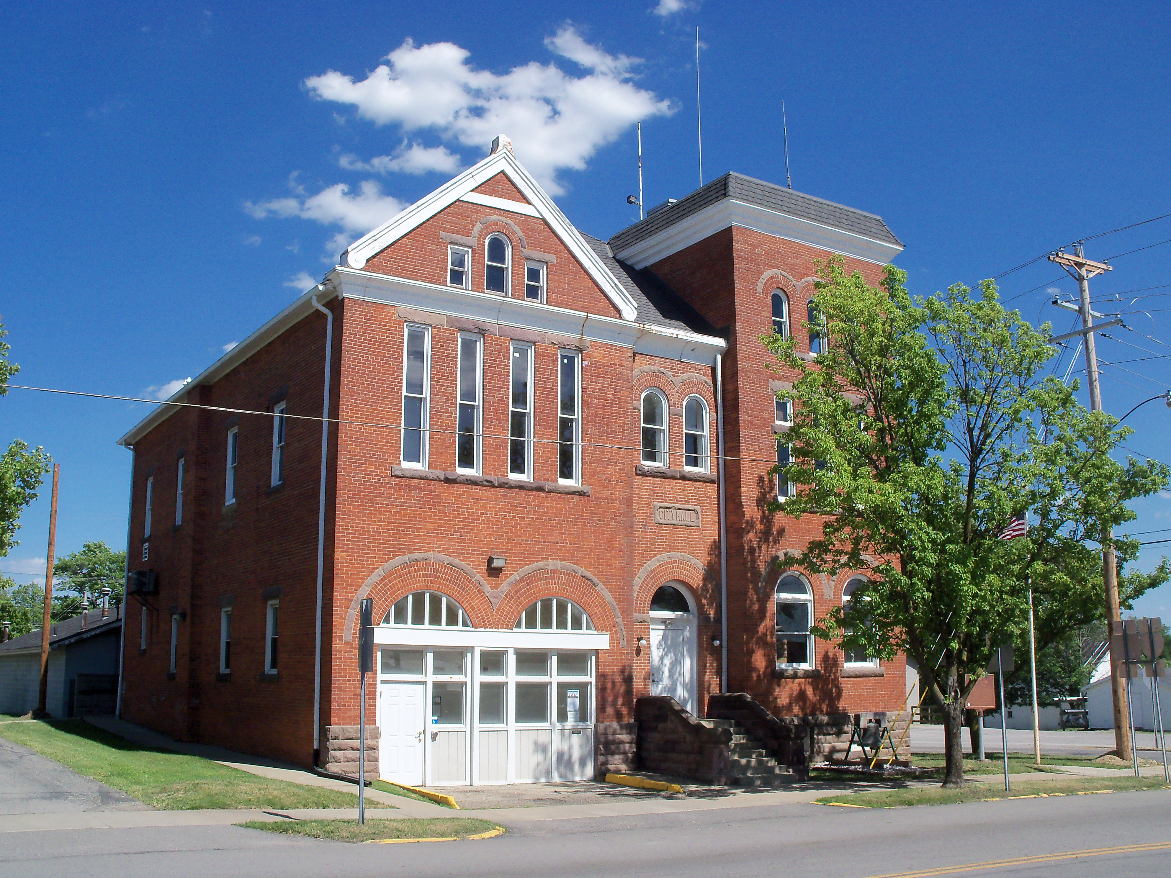 West Salem, Ohio City Hall, designed by William K. Shilling